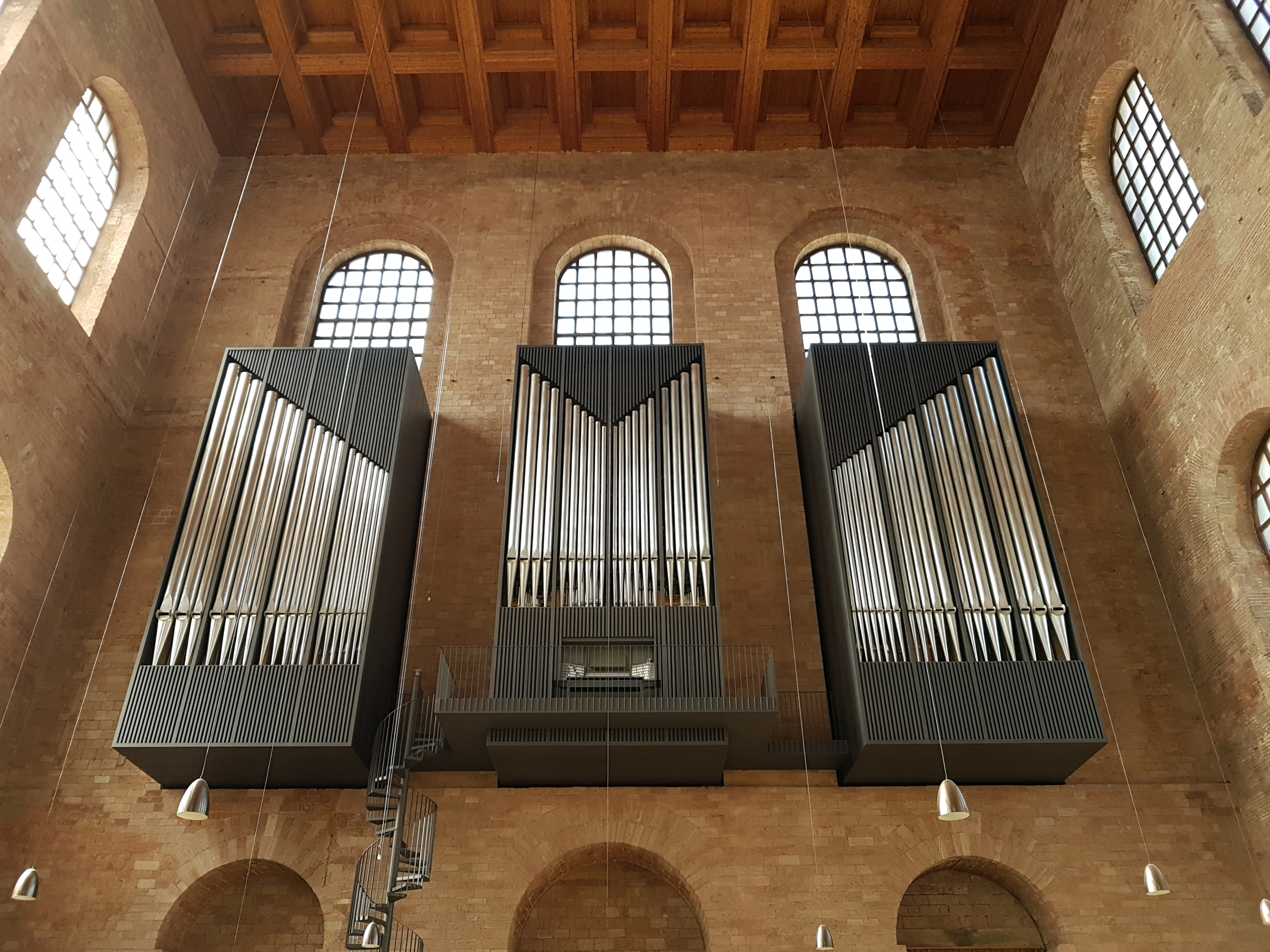 Interior view of the Basilica of Constatine in Trier, Germany. This large Roman building was once the throne hall of emperor Constantine the Great, who had it built around 310 AD as part of his palace. It is now a Protestant church.